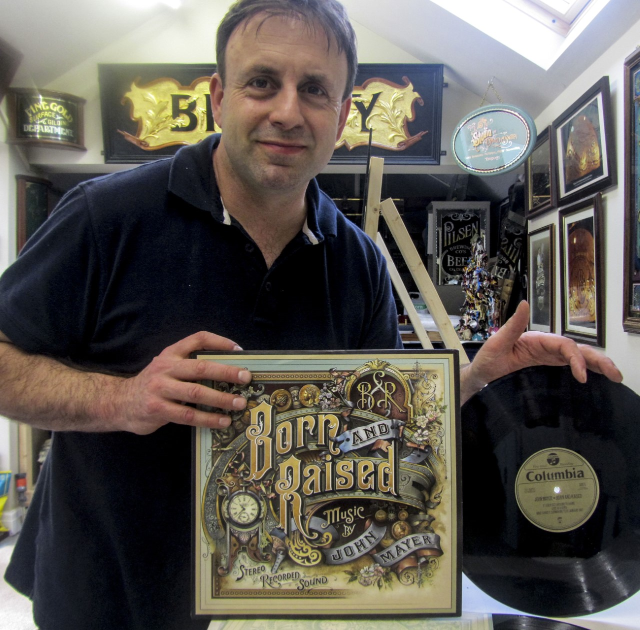 David A. Smith Bornand raised